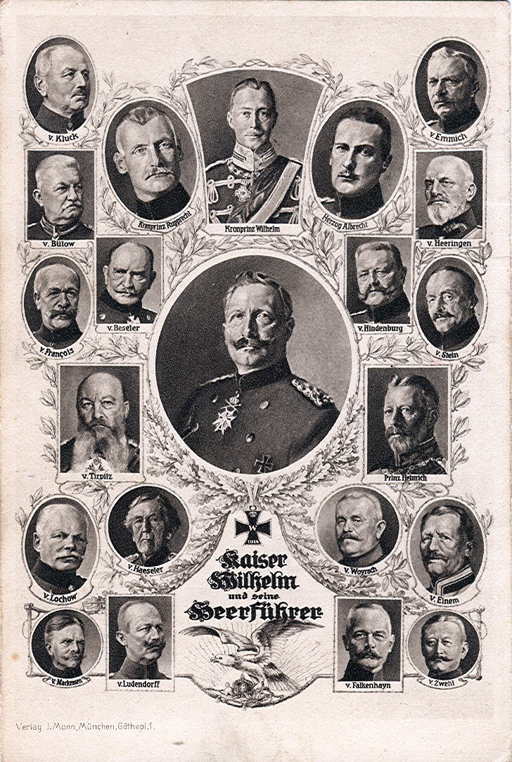 Postcard, dated 13.07.1915. Title: "Emperor Wilhelm and his generals". Gottlieb Ferdinand Albert Alexis Graf von Haeseler (January 19, 1836 – Oct 25, 1919) was a German military officer of the Imperial Wilhelmine period, with final rank of Generalfeldmarschall. Haeseler was born in Potsdam to August Alexis Eduard Haeseler and Albertine von Schönermark. He entered the Prussian army as Lieutenant in 1853 and became aide-de-camp of Prince Frederick Charles of Prussia in 1860. He served in the Danish-Prussian War (1864), the Austro-Prussian War (1866), and the Franco-Prussian War (1870-71). From 1879 he headed the military history department of the general staff, and from 1890-1903 he was General of the Cavalry and head of the 16th Army Corps in Metz. In 1905 he received the rank of a Generalfeldmarschall. From 1903 he was member of the Prussian House of Lords and worked for the development of the vocational school system. Haeseler died in Harnekop. Graf (Count)Gottlieb Ferdinand Albert Alexis von Haeseler. (From 1879 he headed the military history department of the general staff, and from 1890 to 1903 he was General of the Cavalry and head of the 16th Army Corps in Metz. In 1905 he received the rank of a General Field Marshall.)(He would have been in his 45's during WWI.) He then appointed the rank of General der Kavallerie of the German Ulanen regiment Graf Haeseler (2. Brandenburgisches) Nr. 11 (Saarburg) Additionally, the number 11 is visible on the shoulderboards. This royal-photocard is shot in his early 30's in Saarburg.(Alsace)